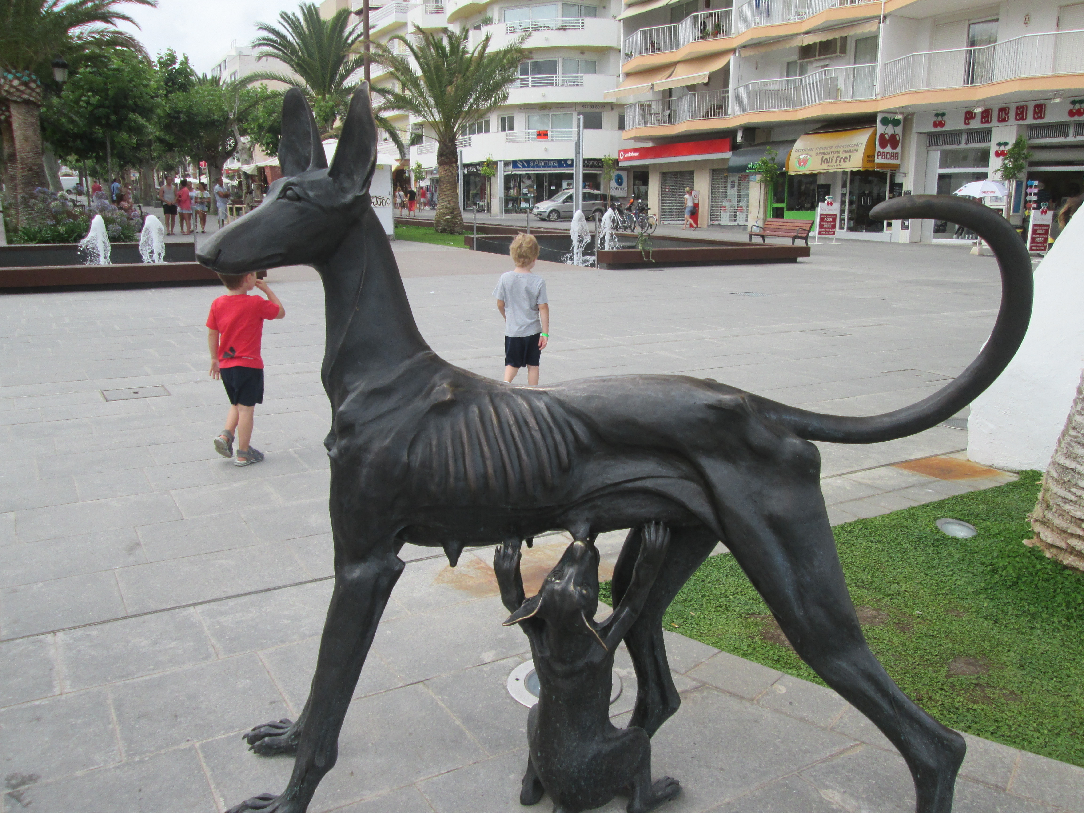 One of the Statues of Podenco Ibicenco in Santa Eularia des Riu - Spain